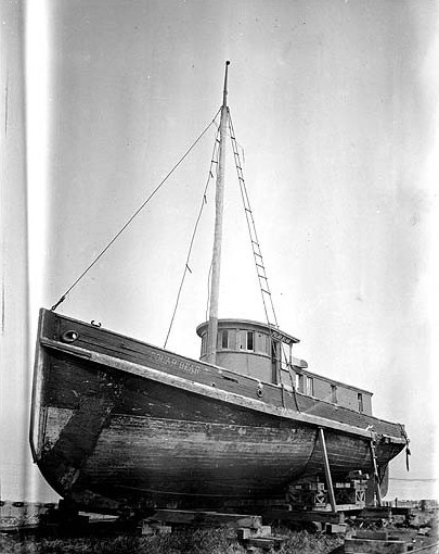 From John Cobb field notebook: The new Polar Bear at Nushagak. 1917 Subjects (LCTGM): Boat & ship industry--Alaska--Nushagak Subjects (LCSH): Polar Bear (Ship); Shipbuilding--Alaska--Nushagak; Dry docks--Alaska--Nushagak